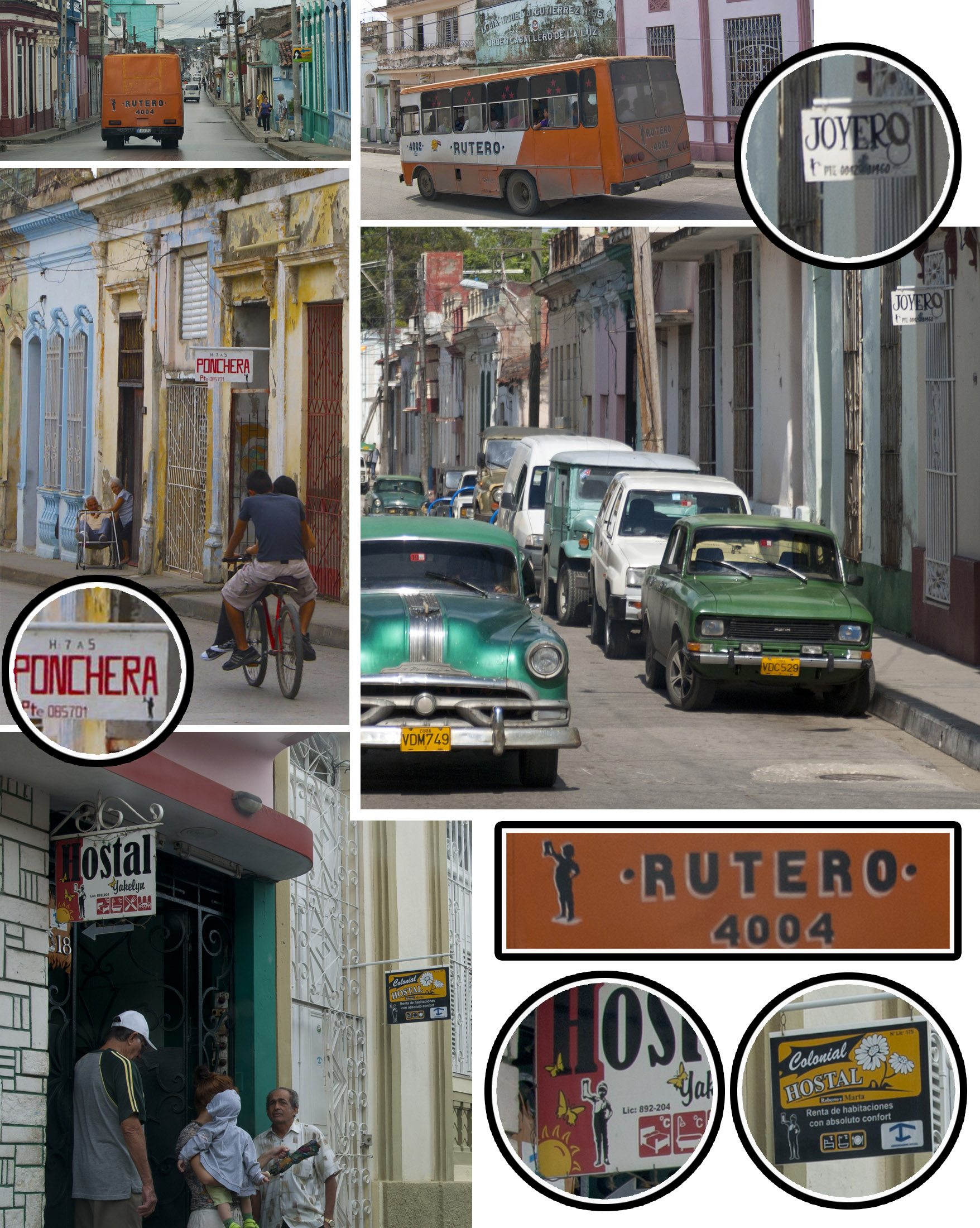 Collage with Kid of Unfortunate Book used as symbol of public services in Santa Clara, Cuba